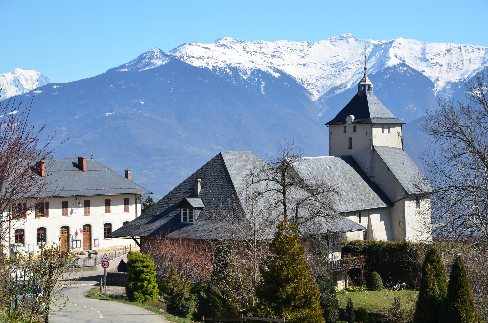 Cléry village, in the french Alps (Savoie, France).